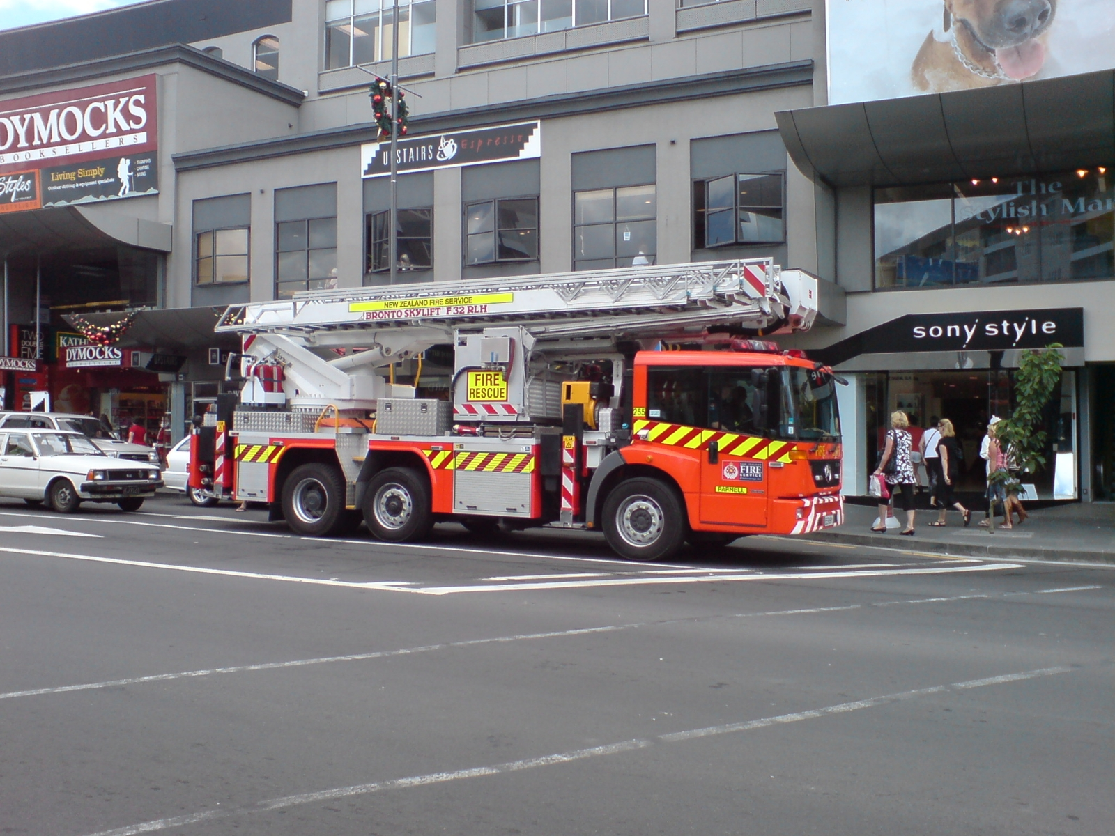 Parnell 255, a fire engine of the Parnell fire station seen on Broadway in Newmarket, New Zealand. 2007 Mercedes Benz 2633 6x2 Econic.